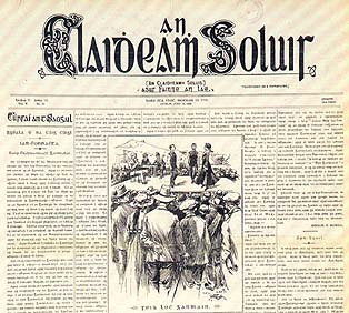 An claideamn soluis, irish newspaper, 1903